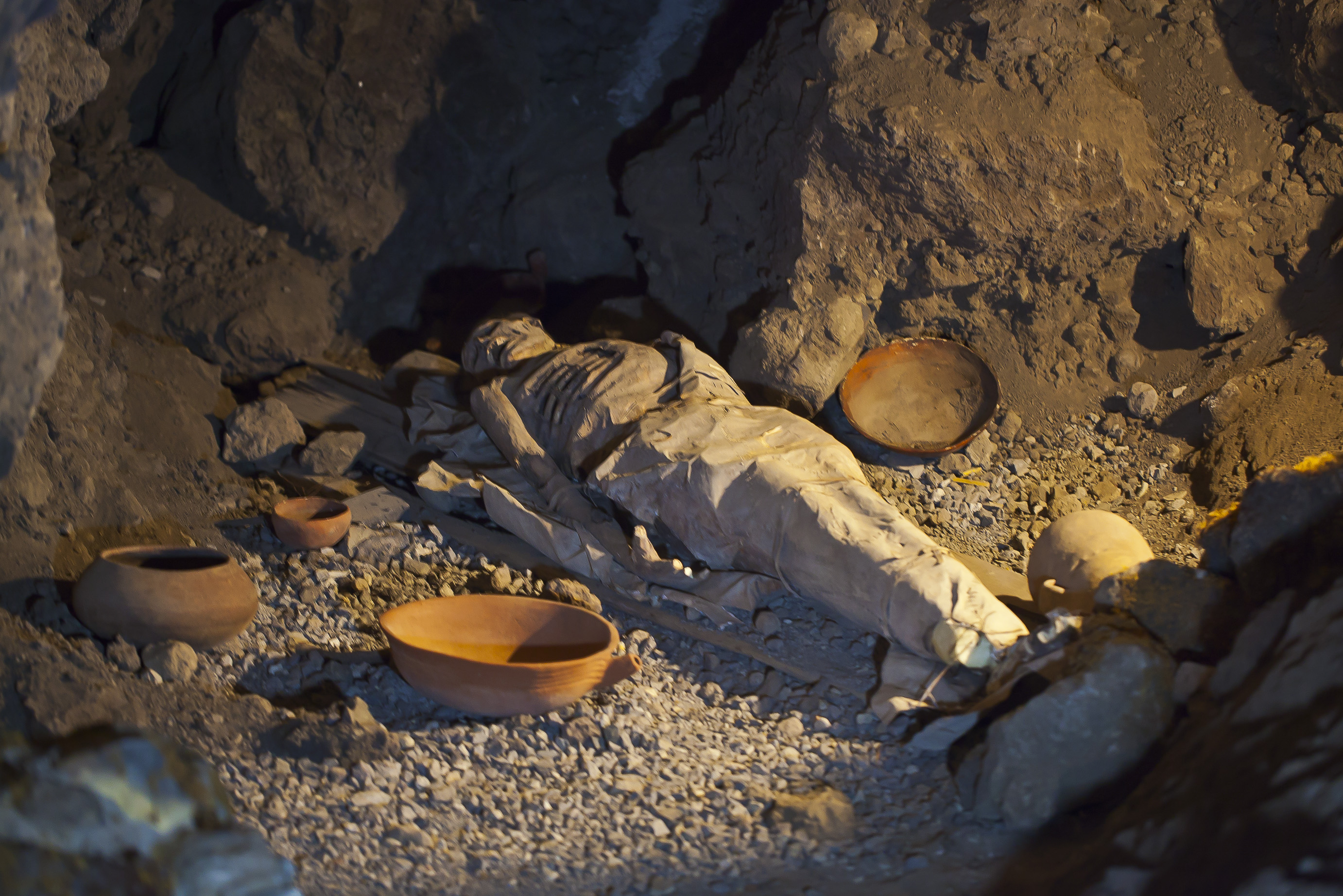 Replica of a guanche mummy in Drago Park's grotto, Icod de los Vinos, Tenerife, Spain